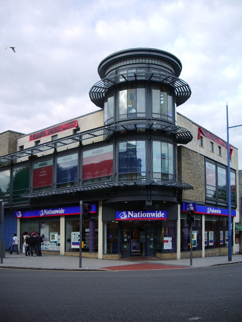 "Nationwide" on the corner of Above Bar Street and Pound Tree Road, Southampton